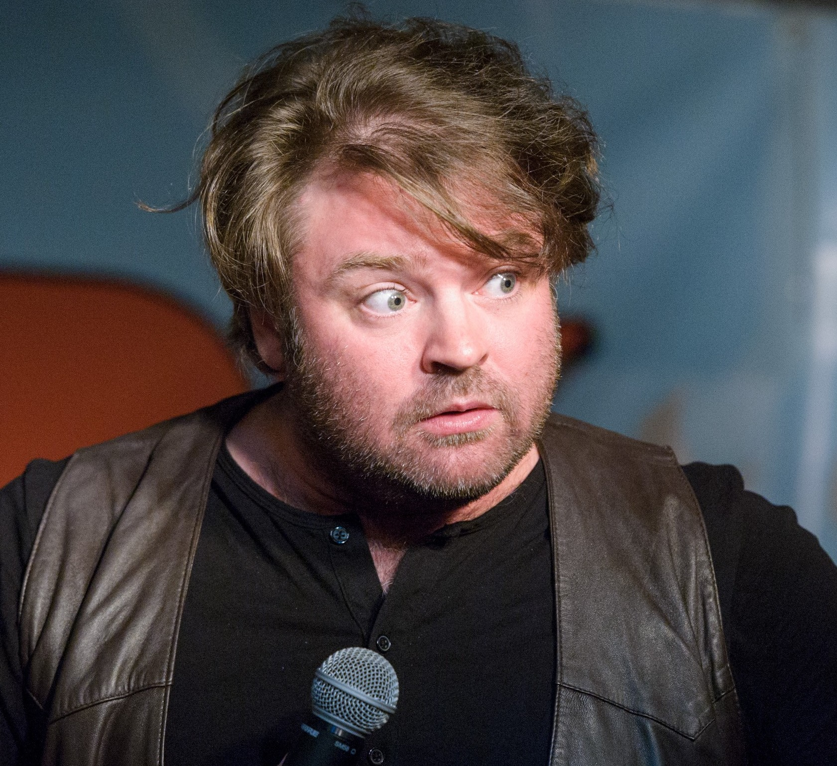 Altitude Comedy Christmas Festival 2016. Mayrhofen, Austria 20161216. Picture by Anthony Upton Glenn Wool, The Sports Bar Mayrhofen, Austria, during the the Altitude Comedy Christmas Festival 2016 Picture date: Friday, December 16th 2016 Altitude16Xmas For further info - Please